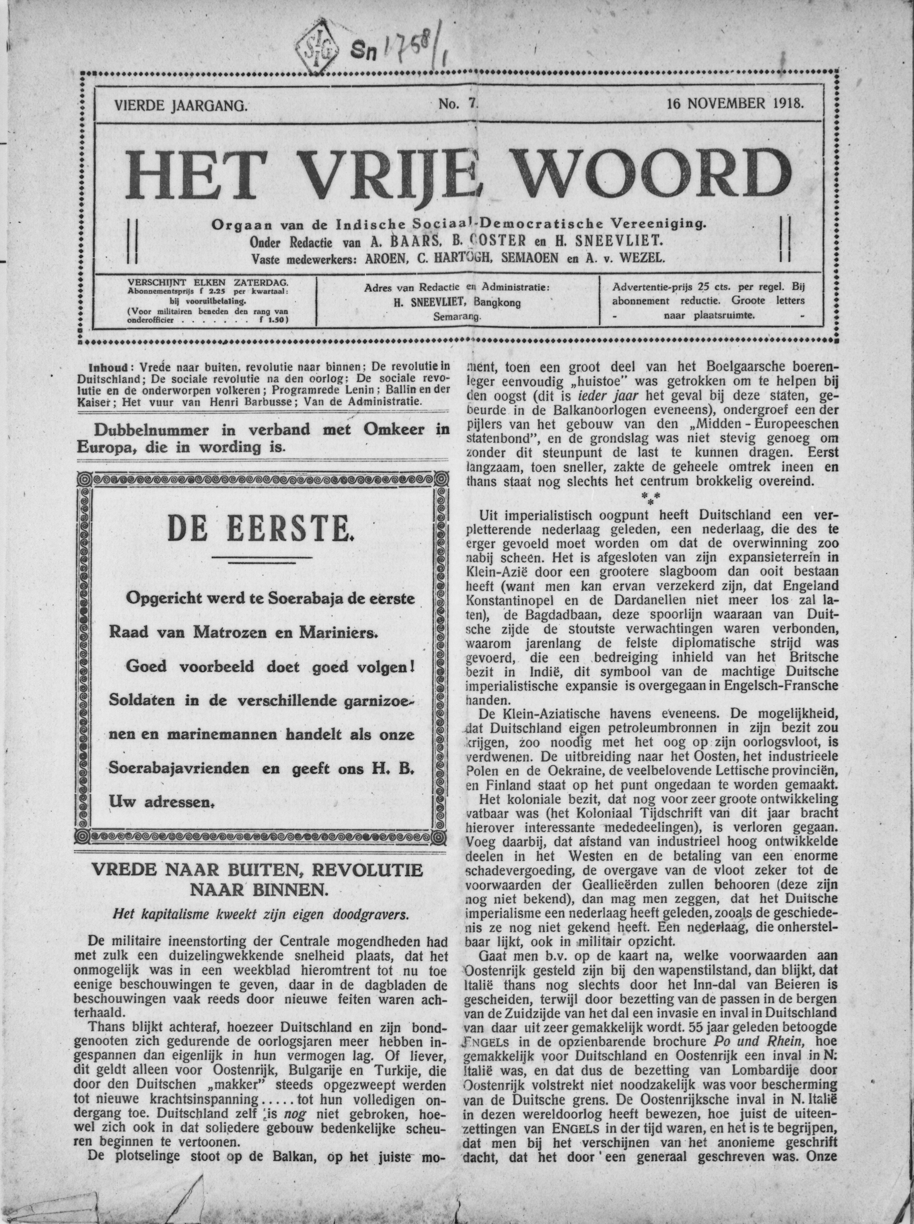 The front page of Het Vrije Woord, a Dutch-language newspaper from Semarang, Dutch East Indies, from the November 16, 1918 issue.